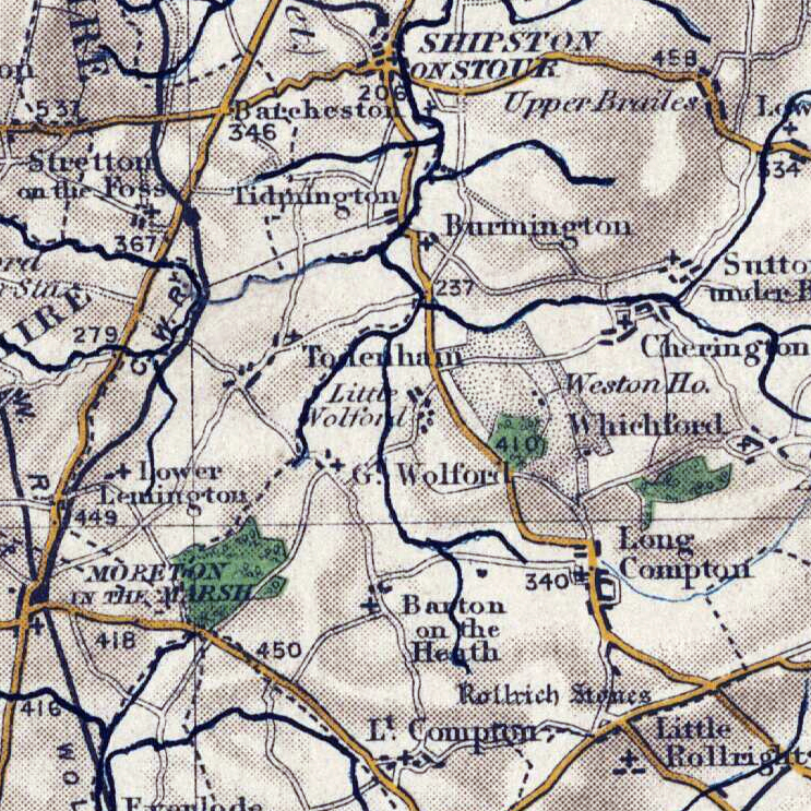 1903 Ordnance Survey map of Little Wolford in Warwickshire, England.